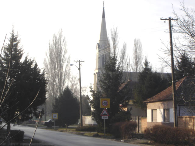 Main street and the Catholic Church in Mužlja/Muzslya, Vojvodina, Serbia